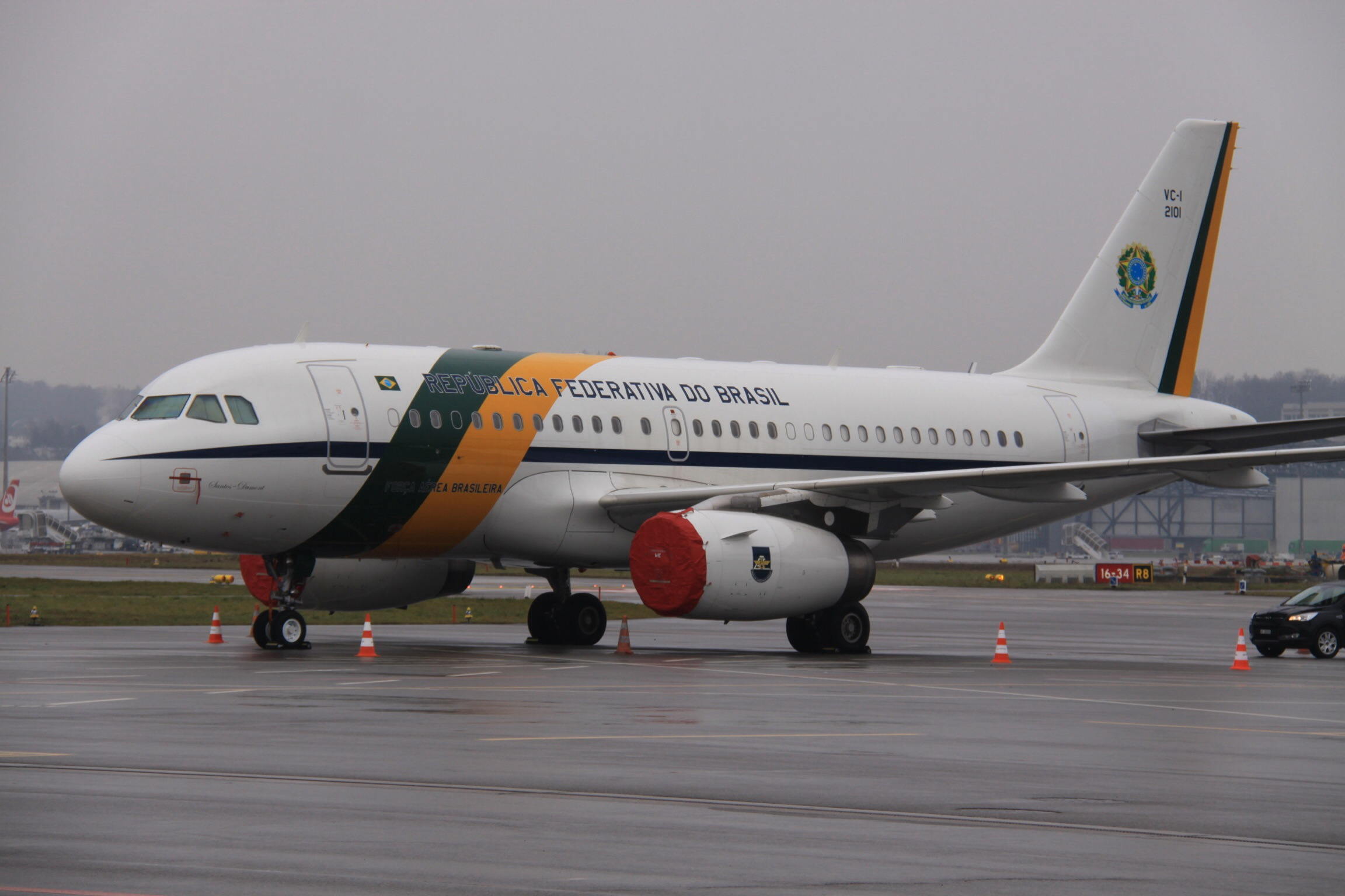 At Zurich Kloten International Airport